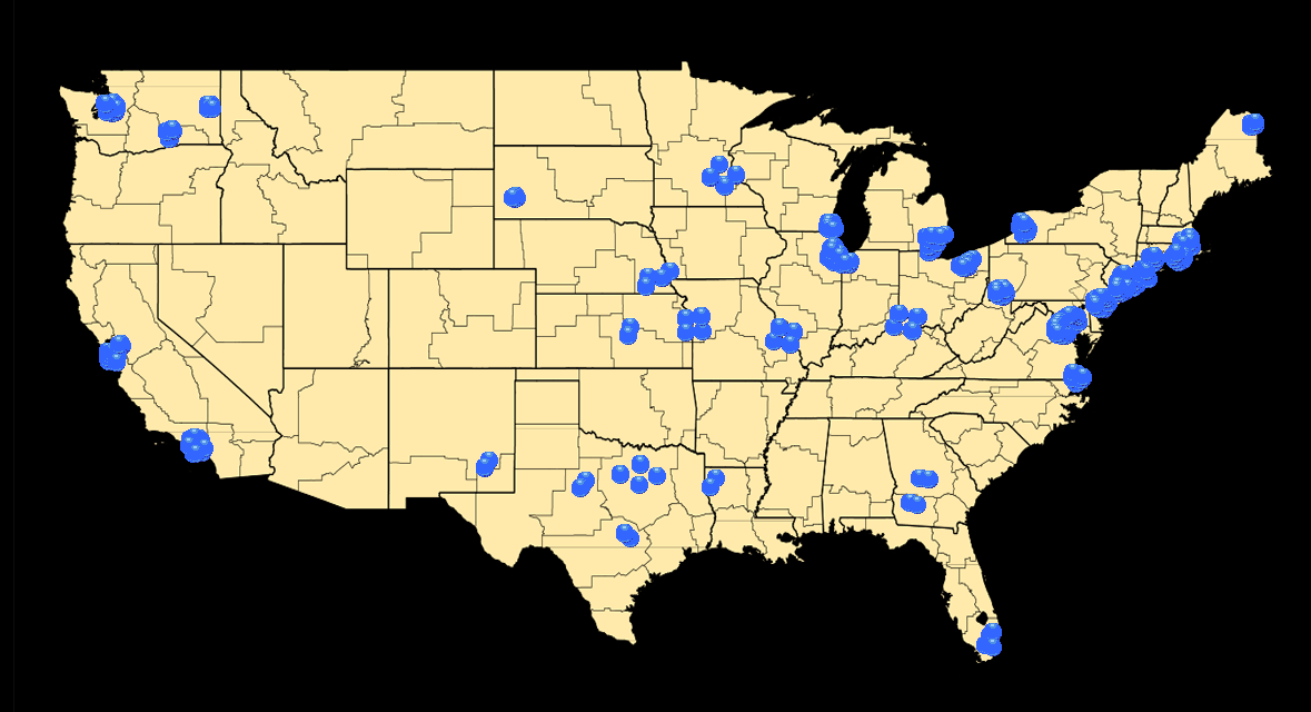 Locations of US Army Nike Missile Sites within the Continental United States